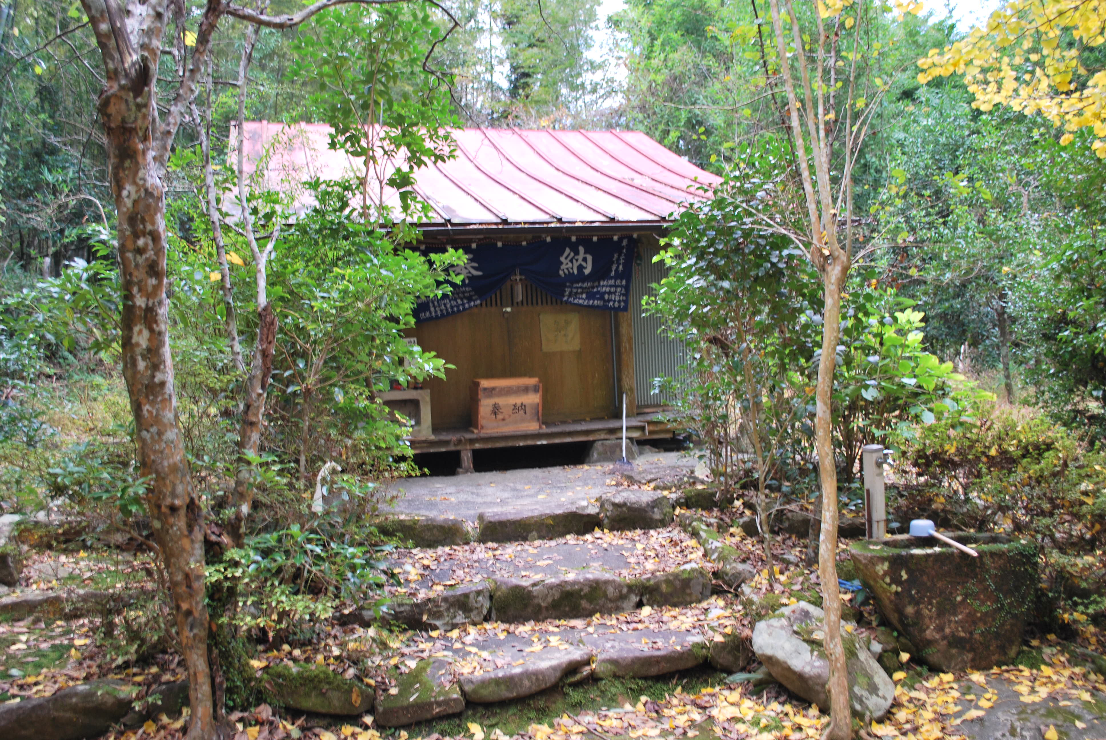 Shinnen-an